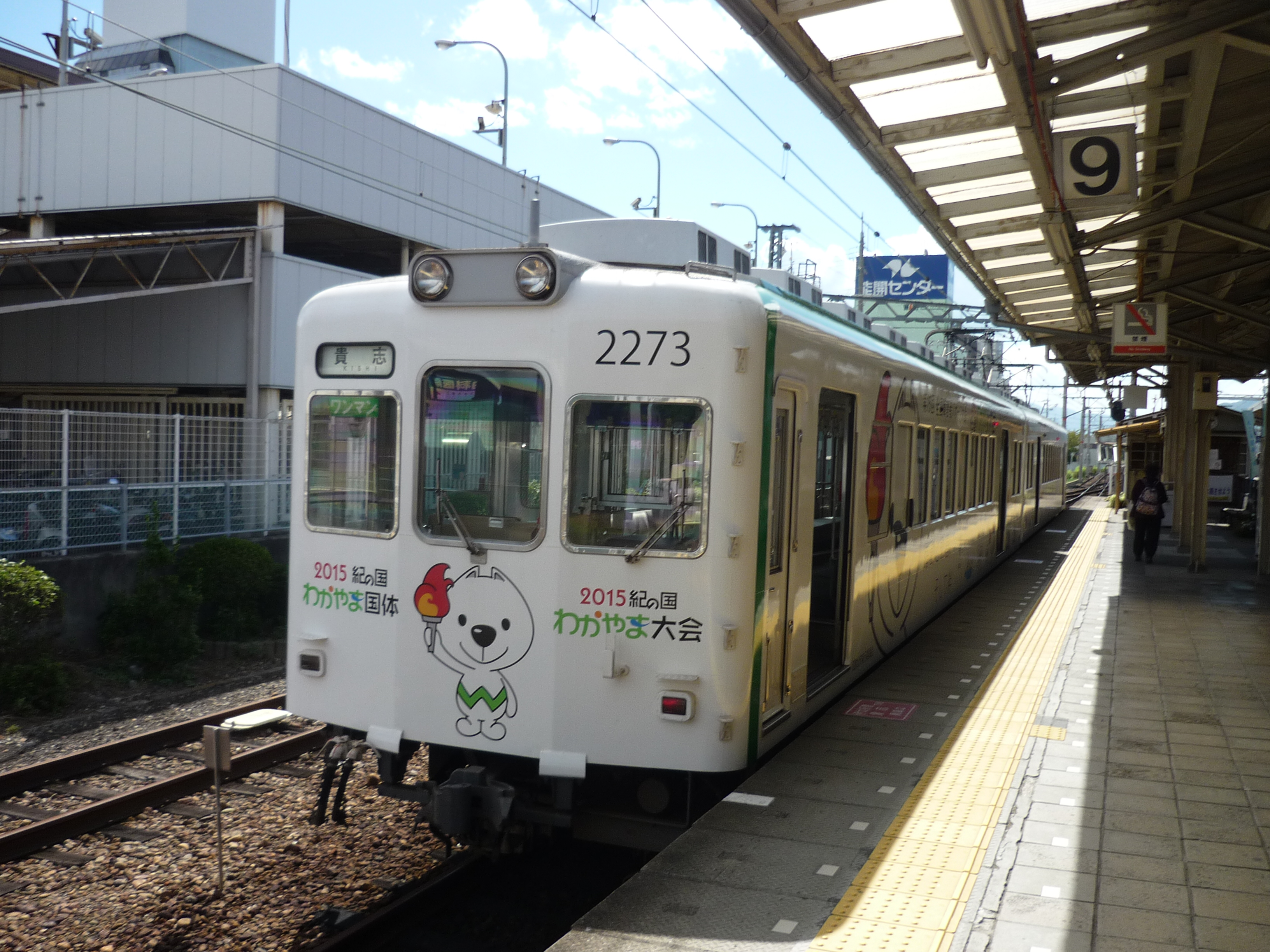 Wakayama Station